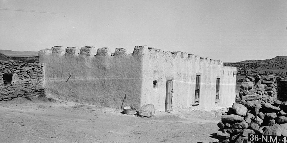 Meeting house, Old Laguna Pueblo, Cibola County, NM. Note corrected county location. Built c.1874 as a school, it was taken over by the Pueblo Council c.1909, and was still being used by them in 1934. James M. Slack, Photographer, February 27, 1934 VIEW FROM SOUTHWEST HABS NM,31-LAGUP,2-1 Historic American Buildings Survey URL